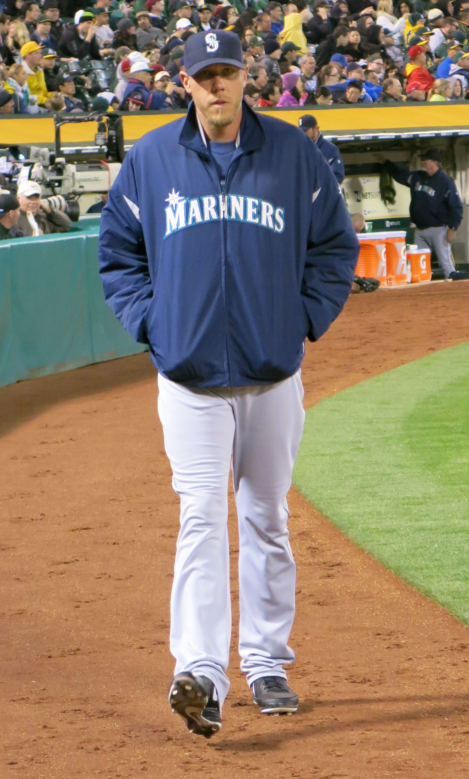 Seattle Mariners reliever Kameron Loe